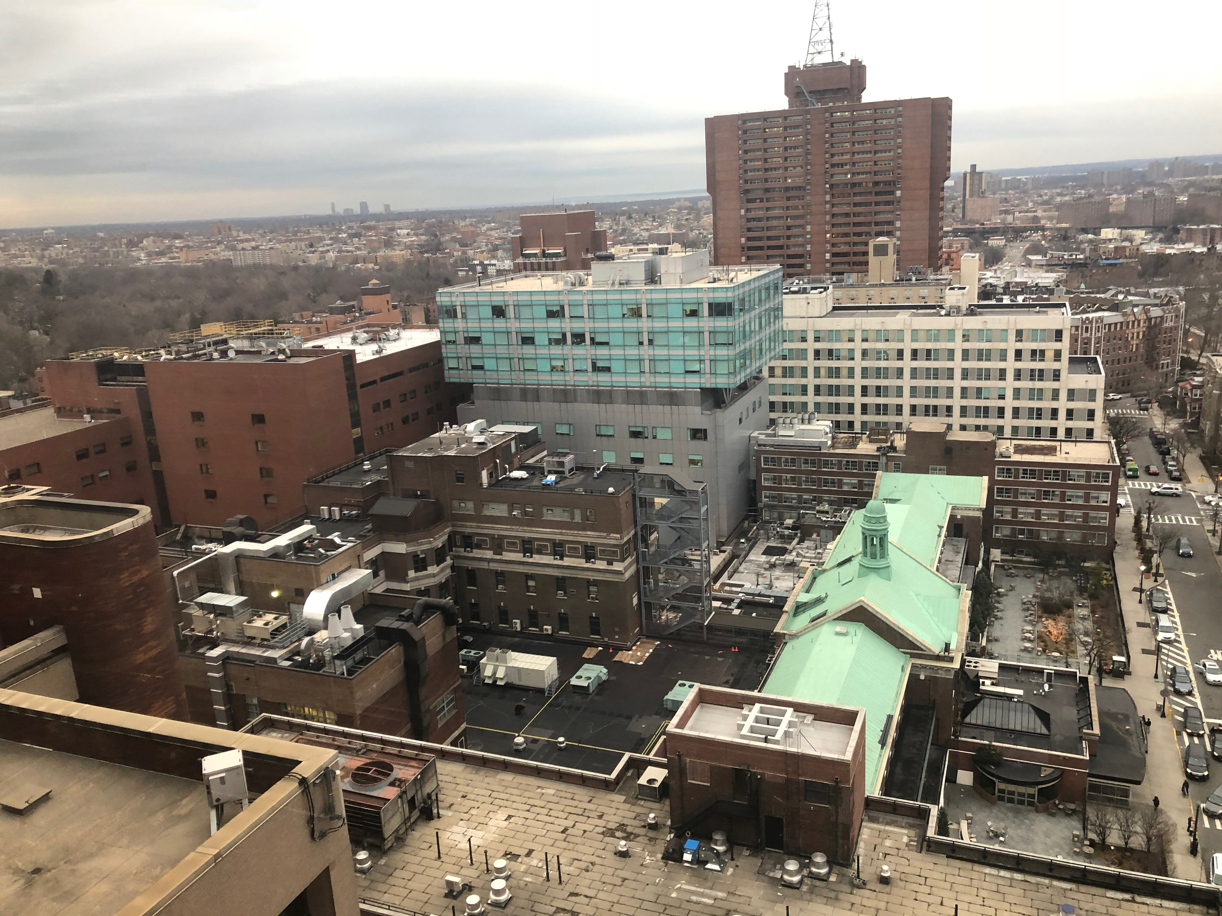 MMC Bronx Norwood Montefiore Medical Center campus as viewed from North Central Bronx Hospital